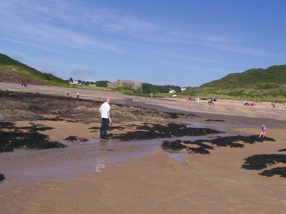 Manorbier Castle. Manorbier Castle